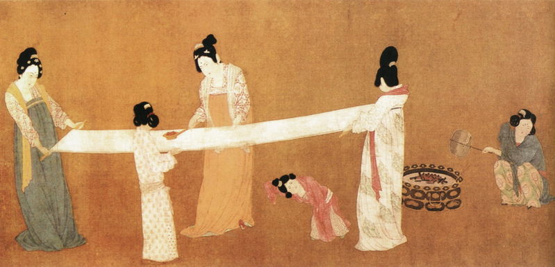 Court Ladies Preparing Newly-Woven Silk, copy of an 8th century painting by Zhang Xuan, performed by Emperor Huizong of Song